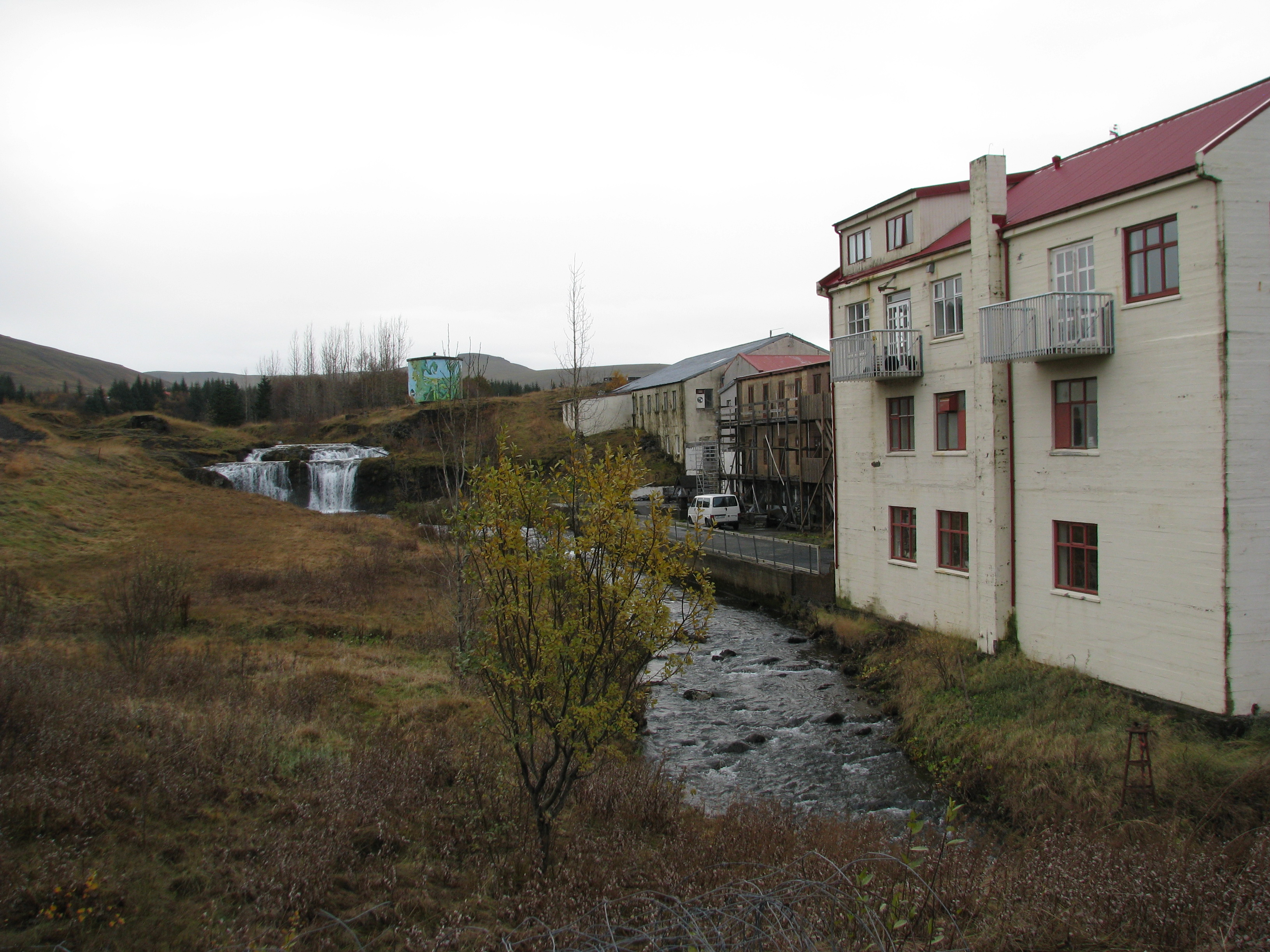 The Álafoss, a waterfall in Mosfellsbaer near Reykjavik, Iceland.